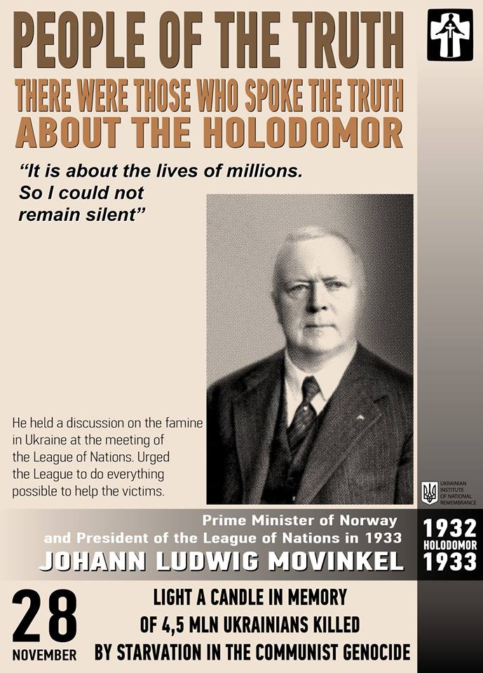 People of truth. There were those who spoke the truth about Holodomor. For the world to know.